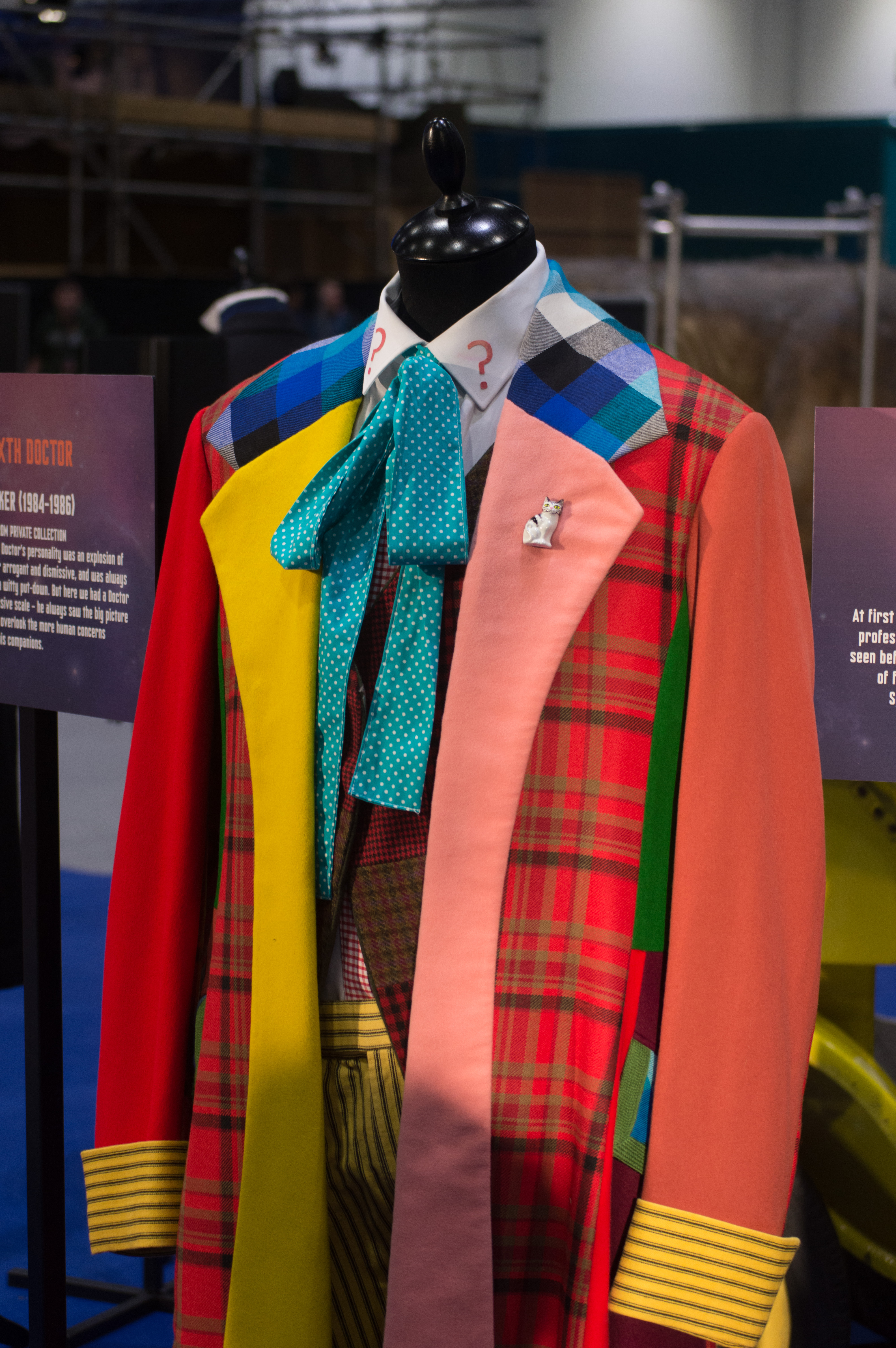 6th doctor costume - Colin Baker Doctor Who Experience